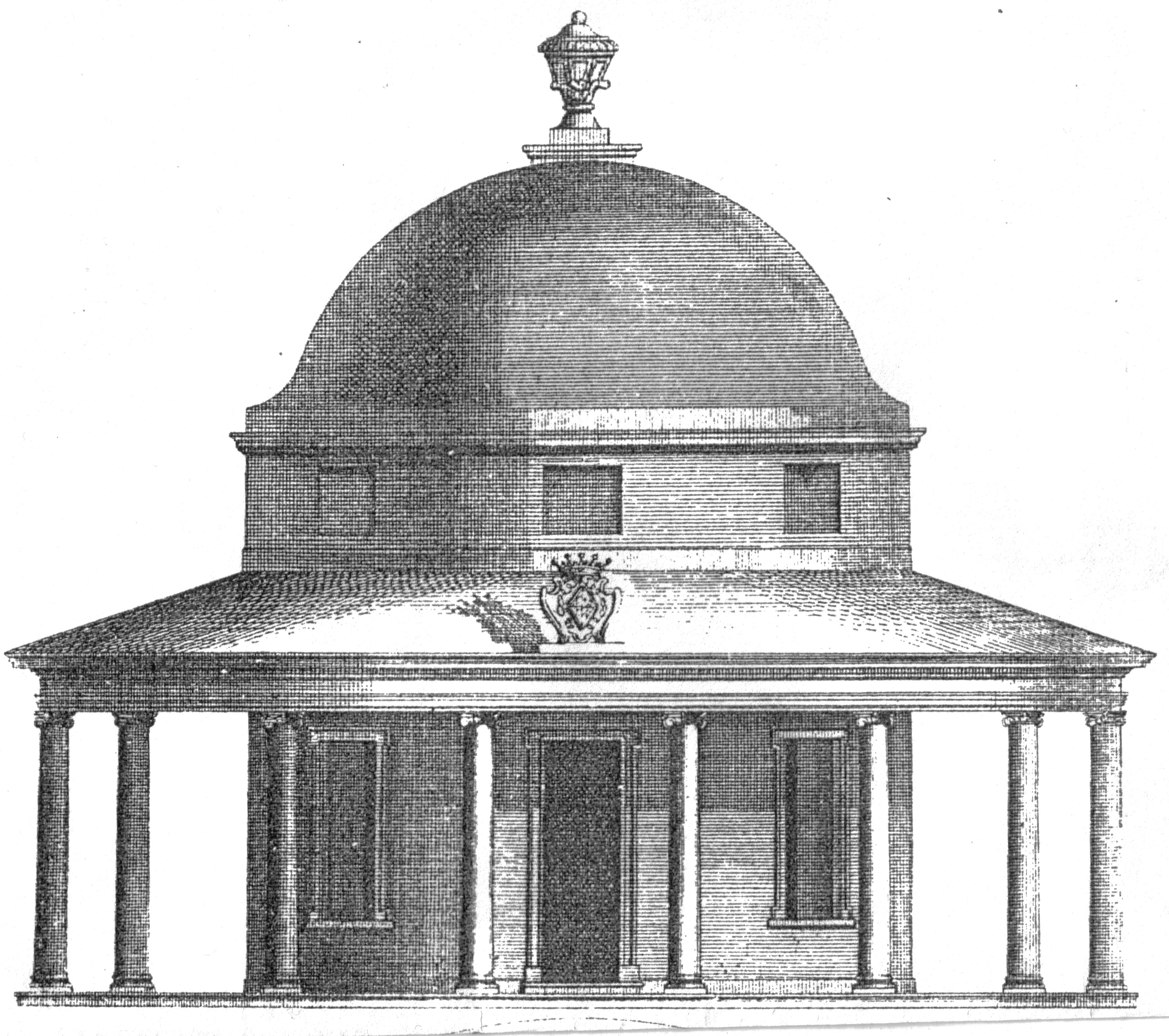 A Temple that was to have built on the Belvidere at Eglinton Castle, Kilwinning, Ayrshire, Scotland